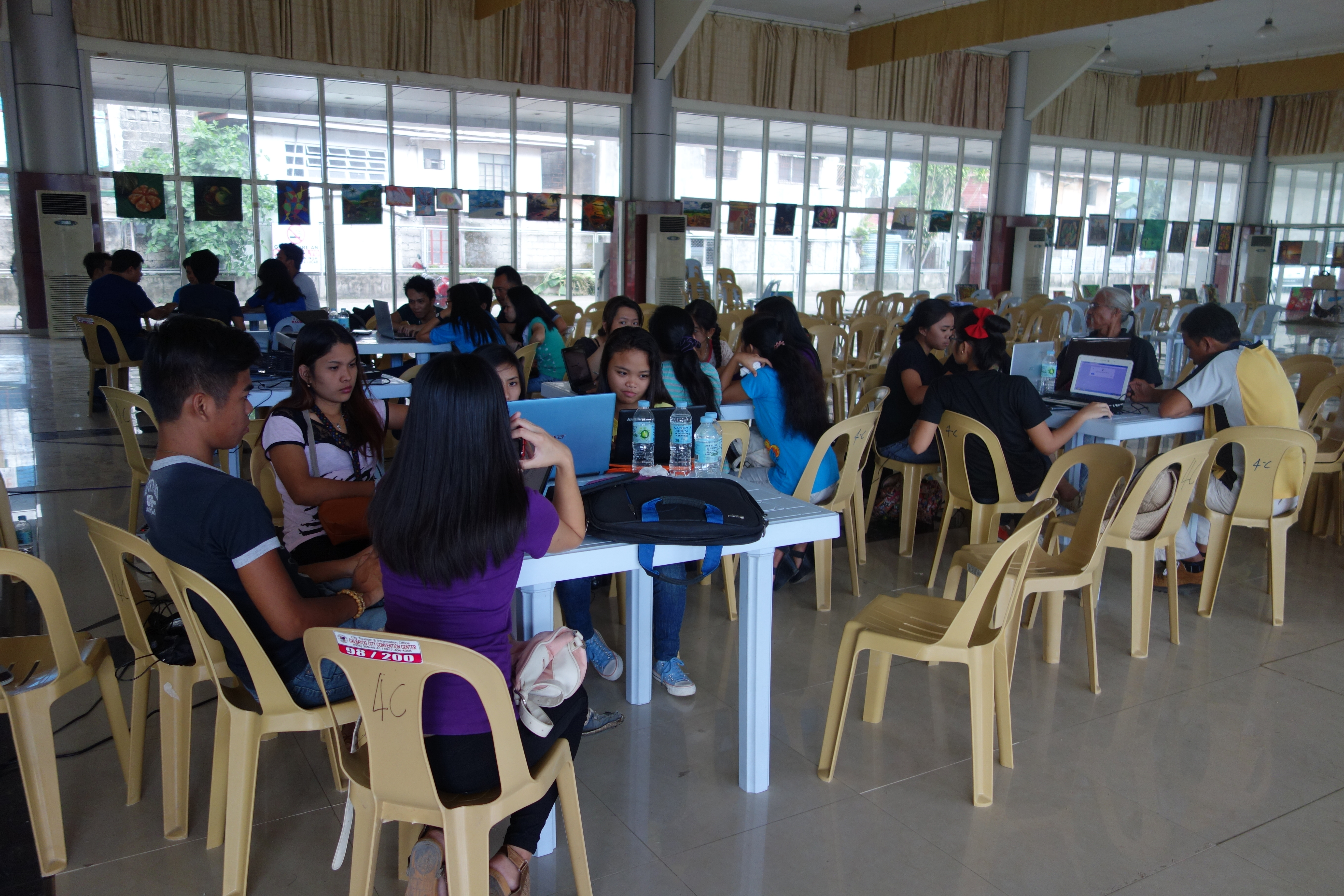 The first Waray Wikipedia Edit-a-thon held at Calbayog City Convention Center last November 22, 2014.